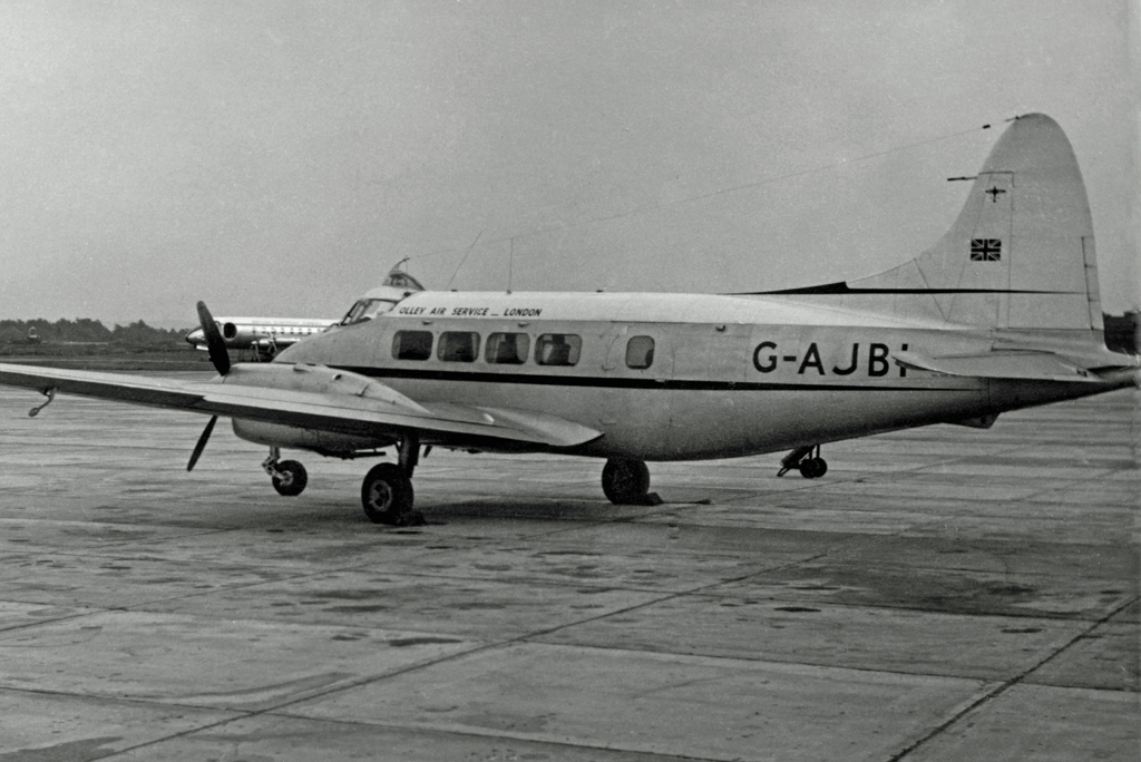 De Havilland Dove G-AJBI of Olley Air Service at Manchester Airport in 1954